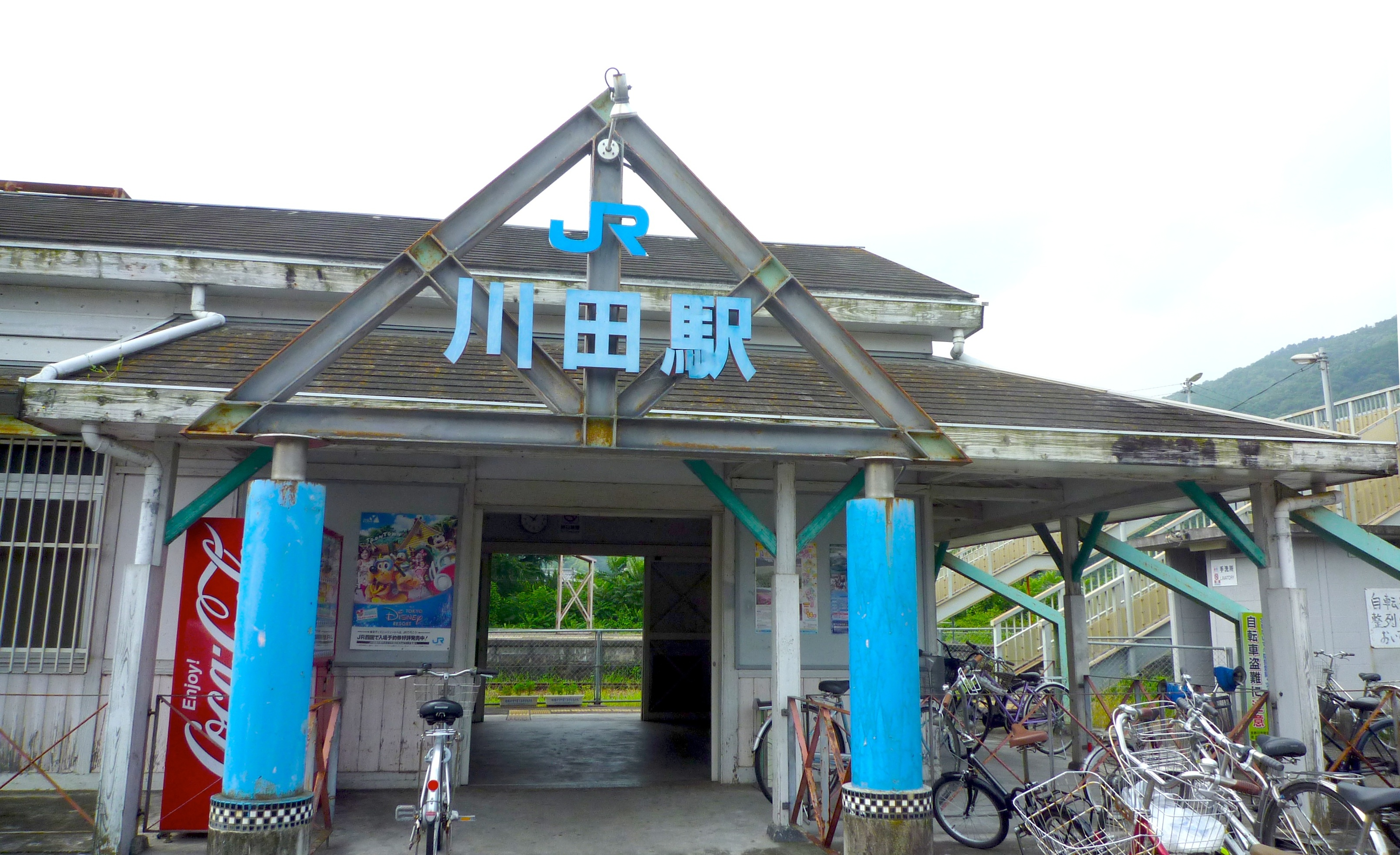 Kawata Station (川田駅 Kawata-eki) is a train station in Yoshinogawa, Tokushima Prefecture, Japan.